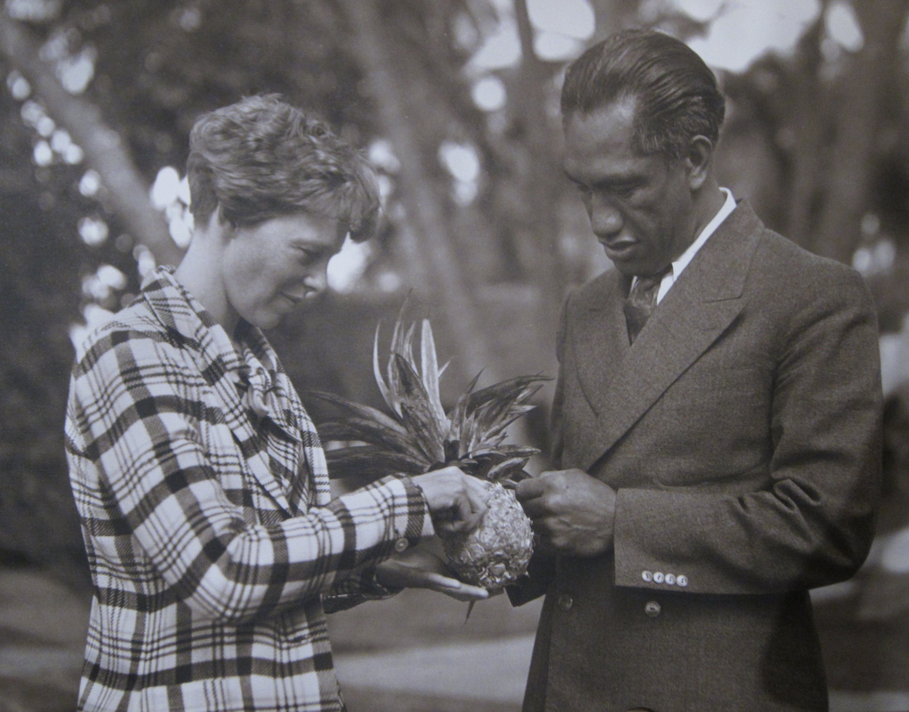 Anonymous photo of Amelia Earhart and Duke Kahanamoku in Hawaii, Dec., 1934 or Jan., 1935